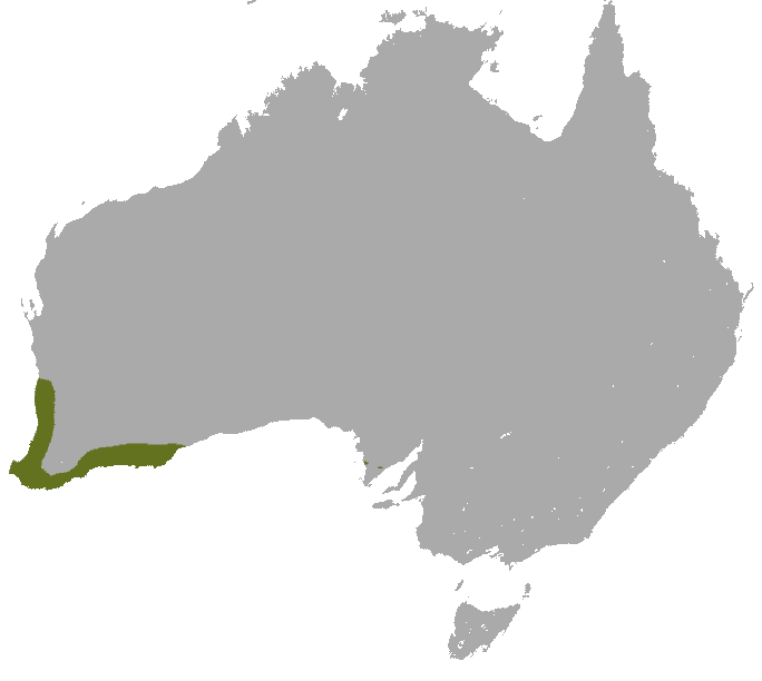 Grey-bellied Dunnart (Sminthopsis griseoventer) range